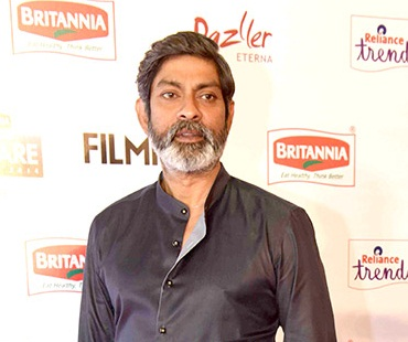 Jagapathi Babu at the 62nd Filmfare Awards South ceremony held in Nehru Stadium, Chennai.